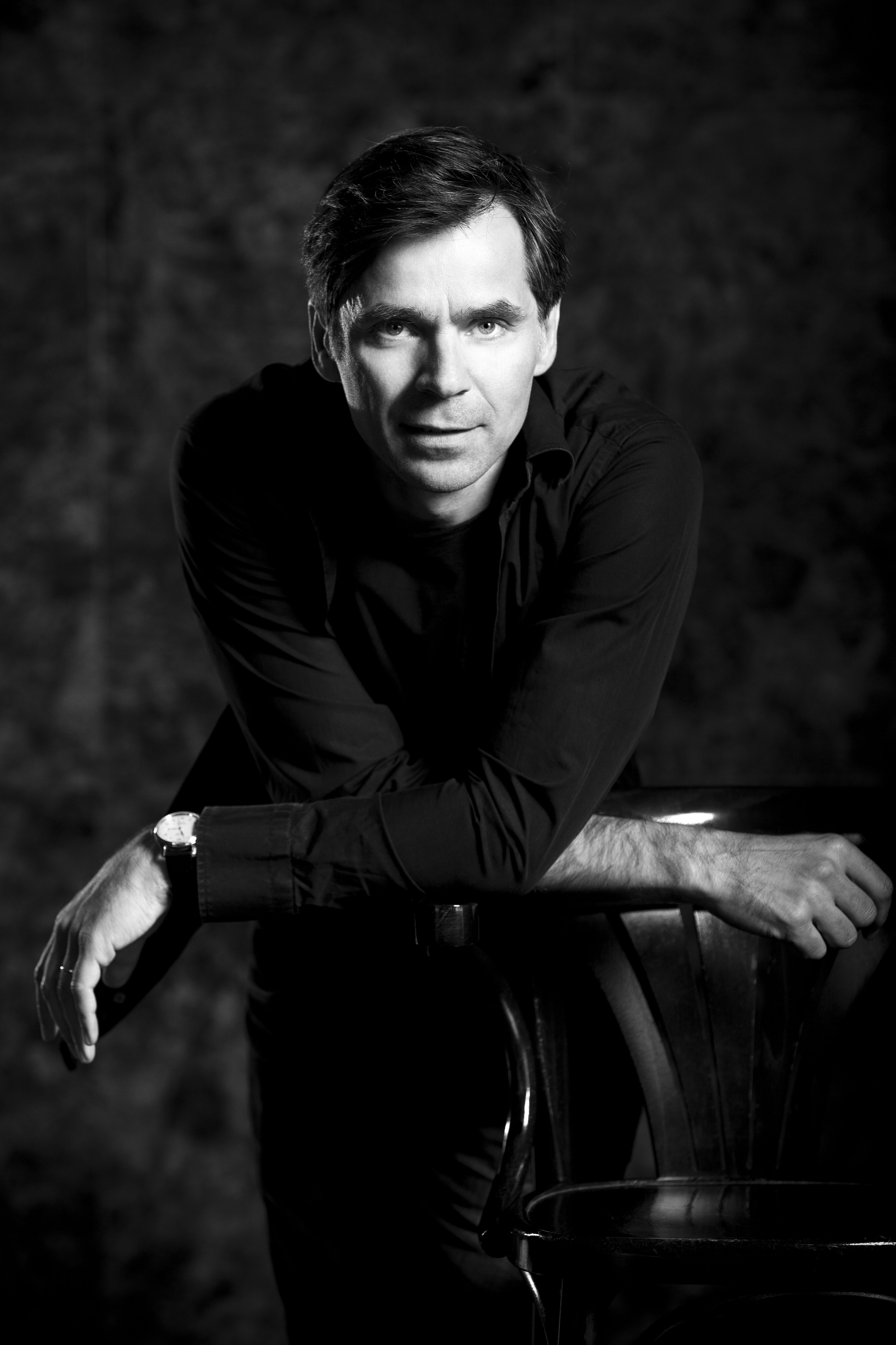 Pavel Knolle, Czech dancer, costume designer, screenwriter, choreographer, director and Head of the Artistic Ensemble of Laterna magika